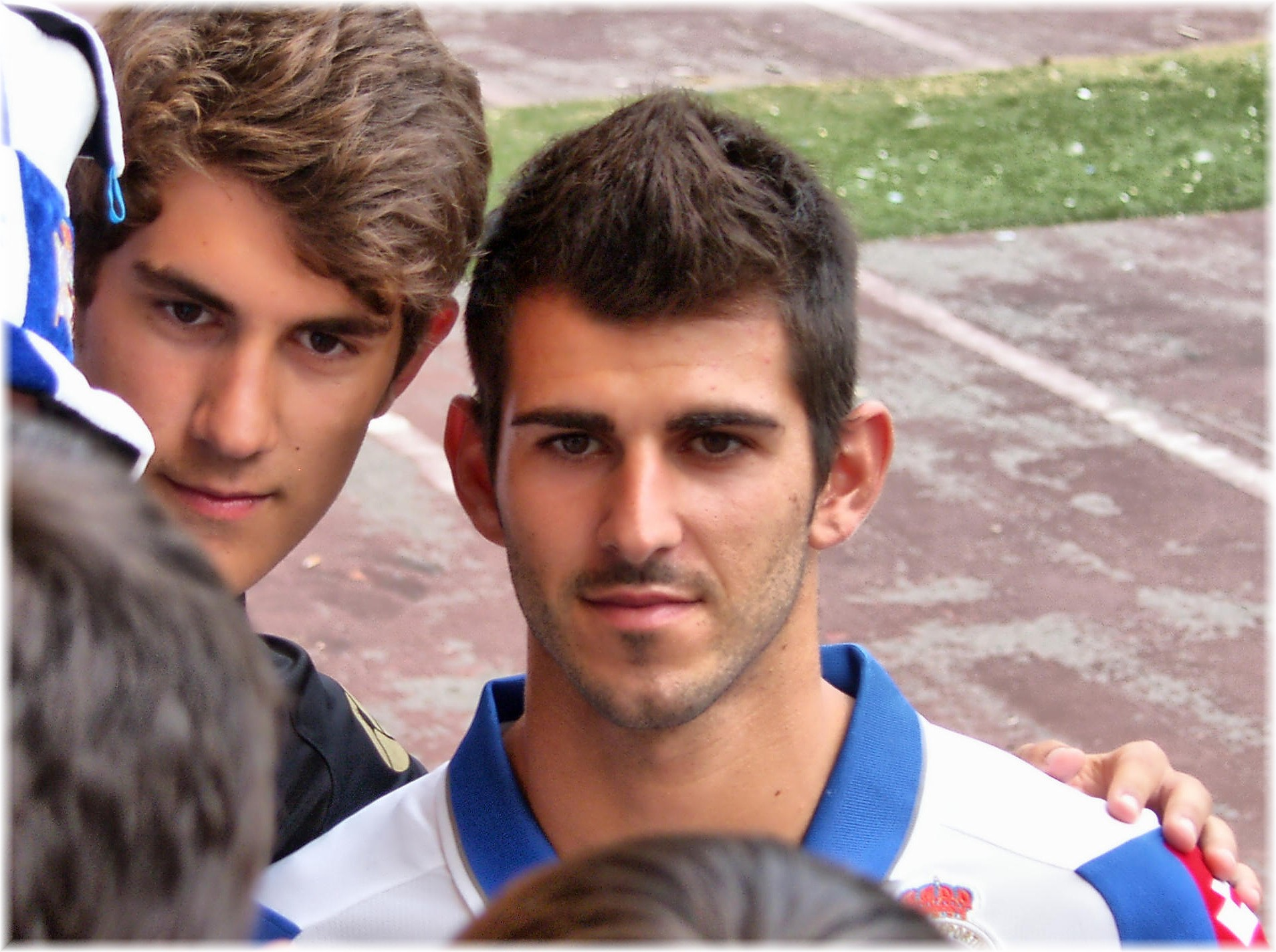 Presentation of Nelson Oliveira.